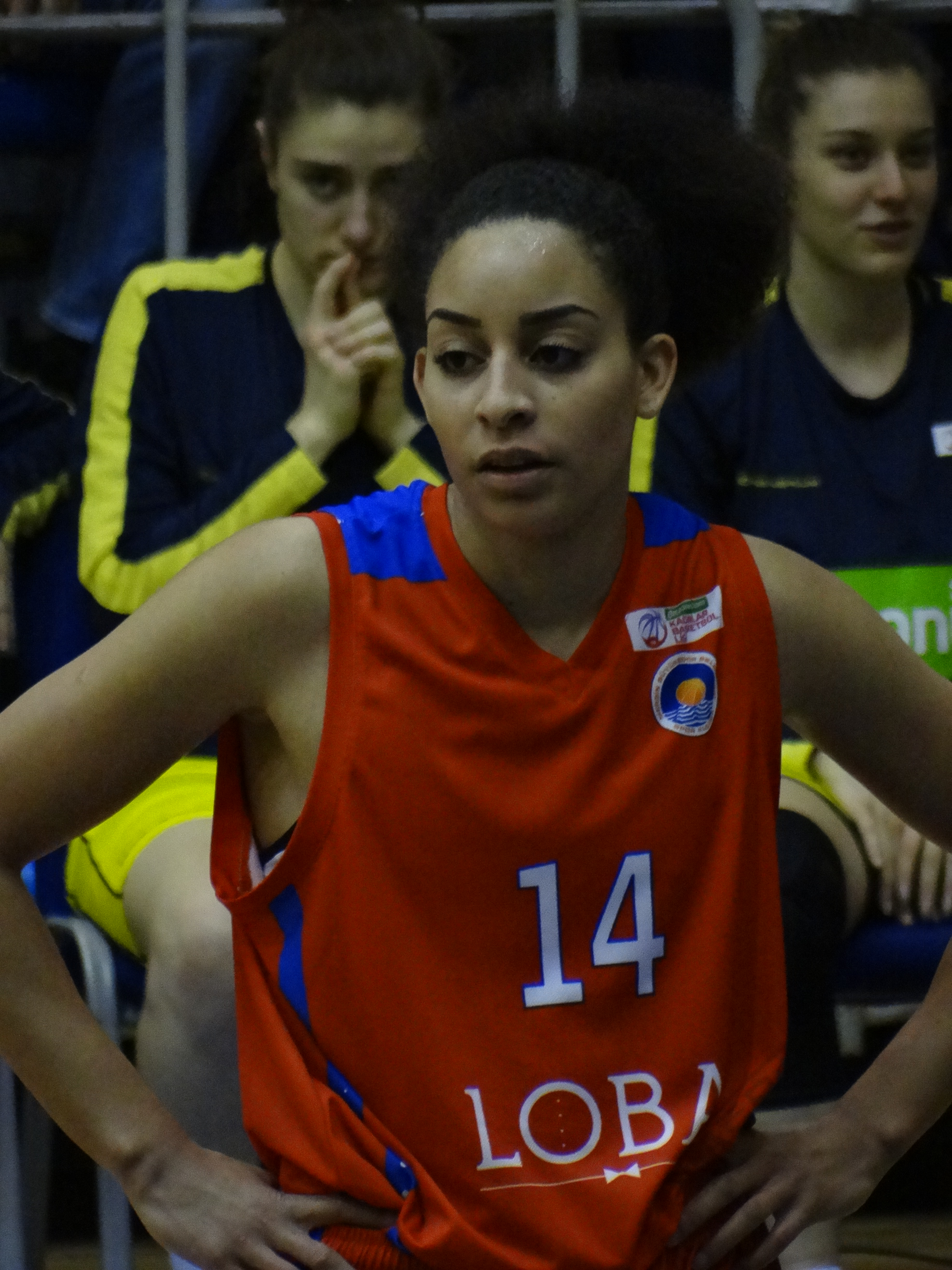 Bria Hartley Fenerbahçe Women's Basketball vs Mersin Büyükşehir Belediyesi (women's basketball) TWBL 20180121